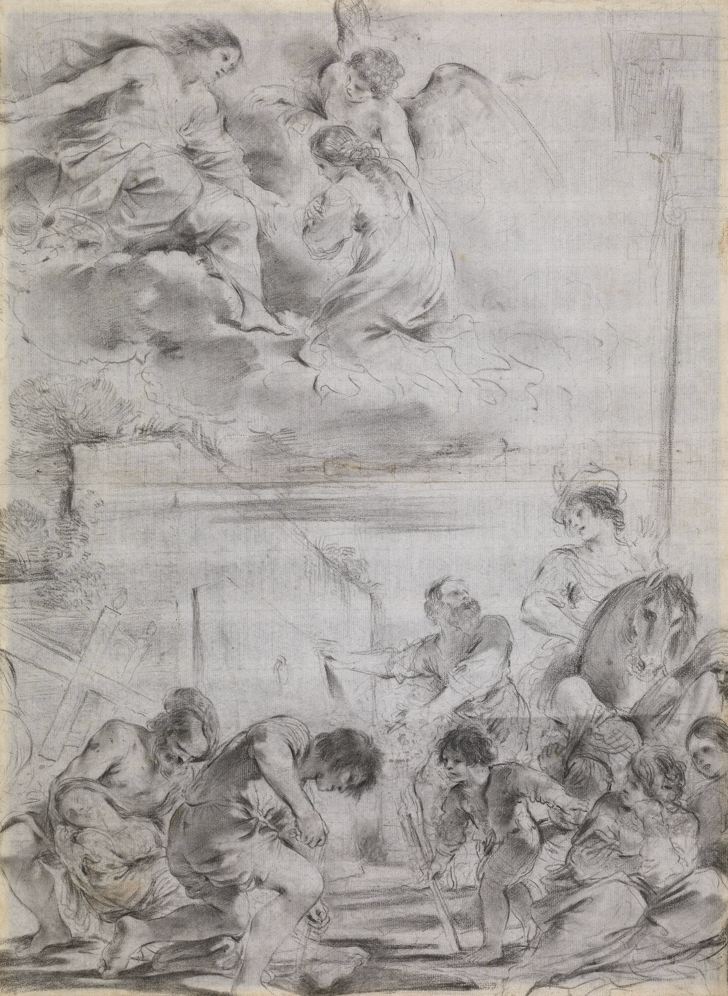 Studio di composizione per la Sepoltura e gloria di santa Petronilla